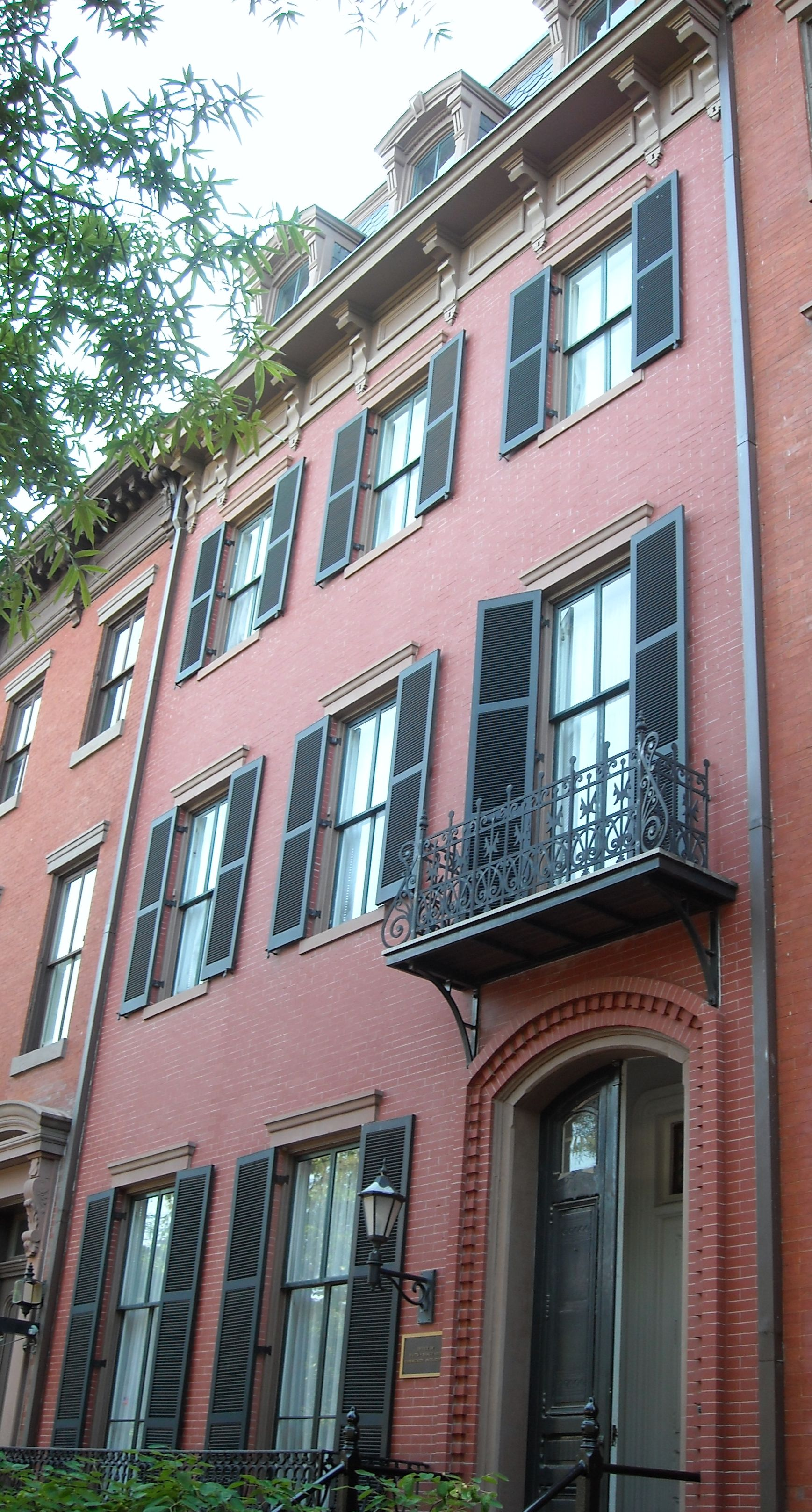 The Trowbridge House located at 708 Jackson Place, NW in Lafayette Square, Washington, D.C. It was built in 1859 for mathematics professor William Petit Trowbridge. Since the early 1900s, the 10,000-square-foot townhouse has served as office space for the federal government. The building was recently incorporated into the Blair House complex, an official residence for former presidents visting Washington, D.C. The Trowbridge House is a contributing property to the Lafayette Square Historic District, a National Historic Landmark. Previous tenants of the Trowbridge House include the Commission of Fine Arts, White House Millennium Council, Psychological Strategy Board, Operations Coordinating Board, and White House Office of Women's Initiatives and Outreach. The most recent tenant was George W. Bush's White House Office of Faith-Based and Community Initiatives.